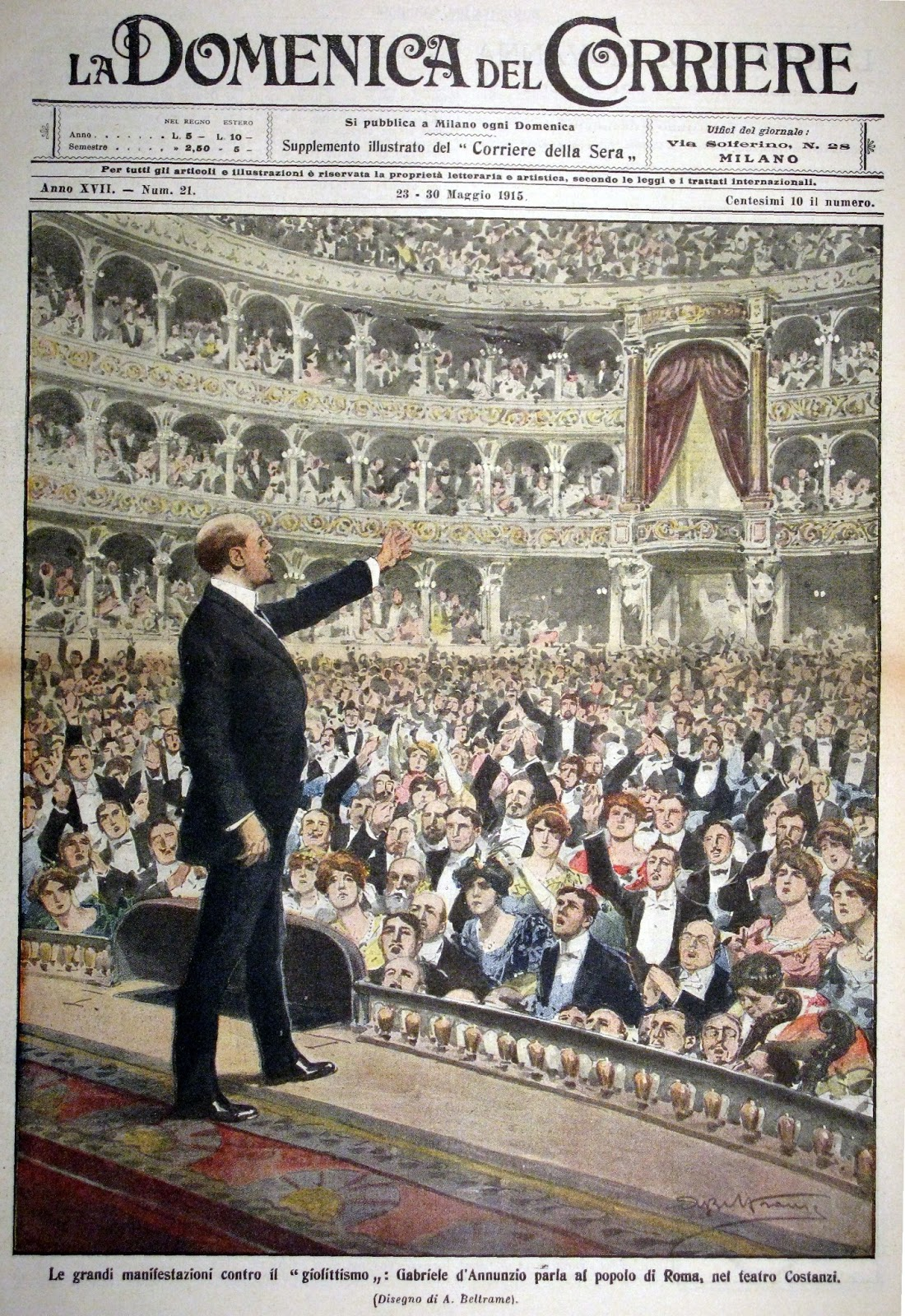 Cover of Domenicadel Corriere Gabriele D'annunzio speak against Giolitti